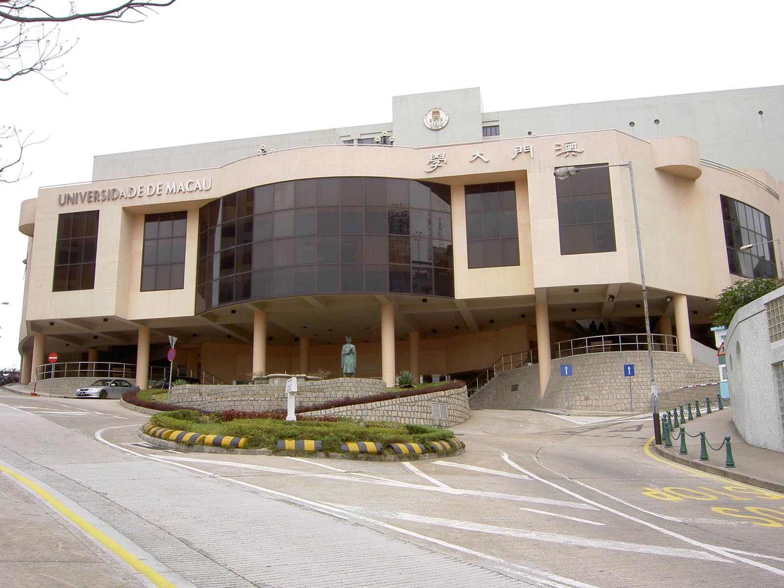 The administrative building of the University of Macau